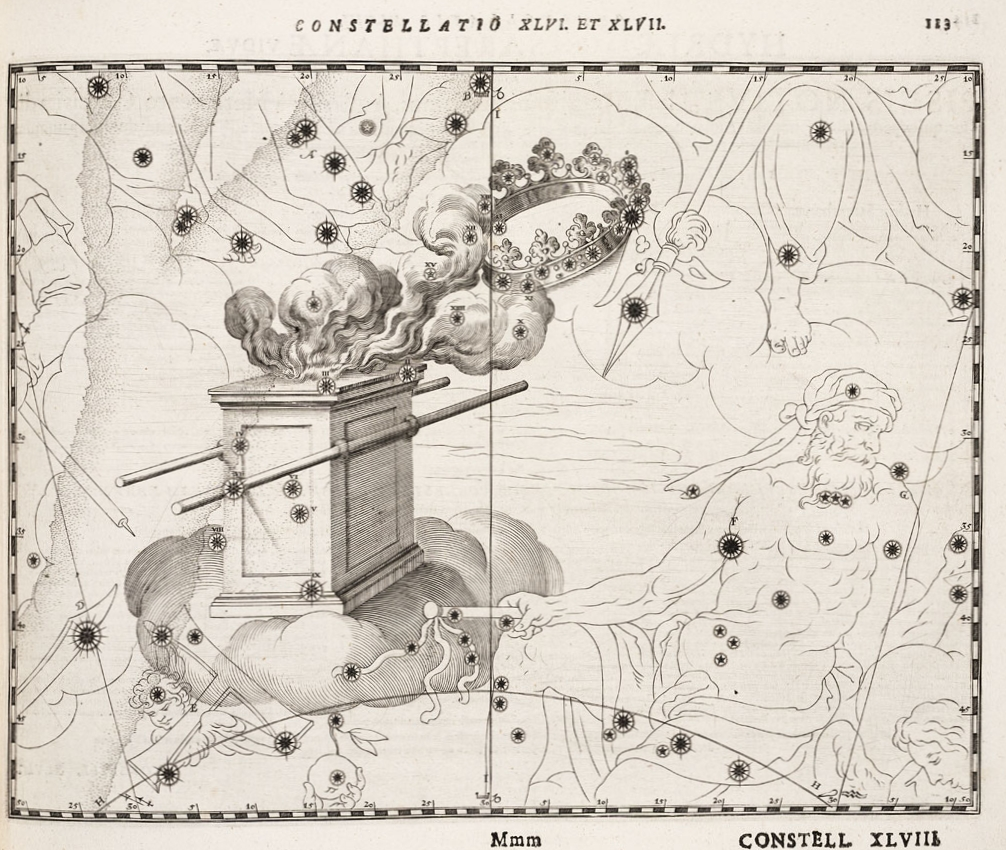 Image 43: Altar of Incense & Solomon's Crown